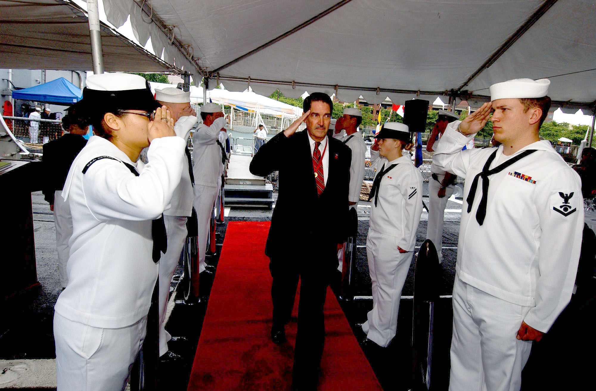 PORTLAND, Ore. (June 9, 2007) – The Honorable William A. Navas Jr., the assistant Secretary of the Navy (Manpower and Reserve Affairs), is greeted by sideboys upon his arrival aboard guided-missile destroyer USS Howard (DDG 83). Navas visited Howard to speak to various educators from the city of Portland during the 100th Annual Portland Rose Festival Fleet Week Celebration. Four Navy ships participated in this year's festival that included USS Bunker Hill (CG 52), USS Vandergrift (FFG 48), USS Mobile Bay (CG 53), and the USS Howard (DDG 83).